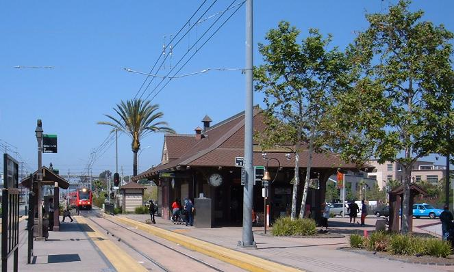 San Diego Old Town Transit Center; Green Line approaching station from north across Taylor Street.